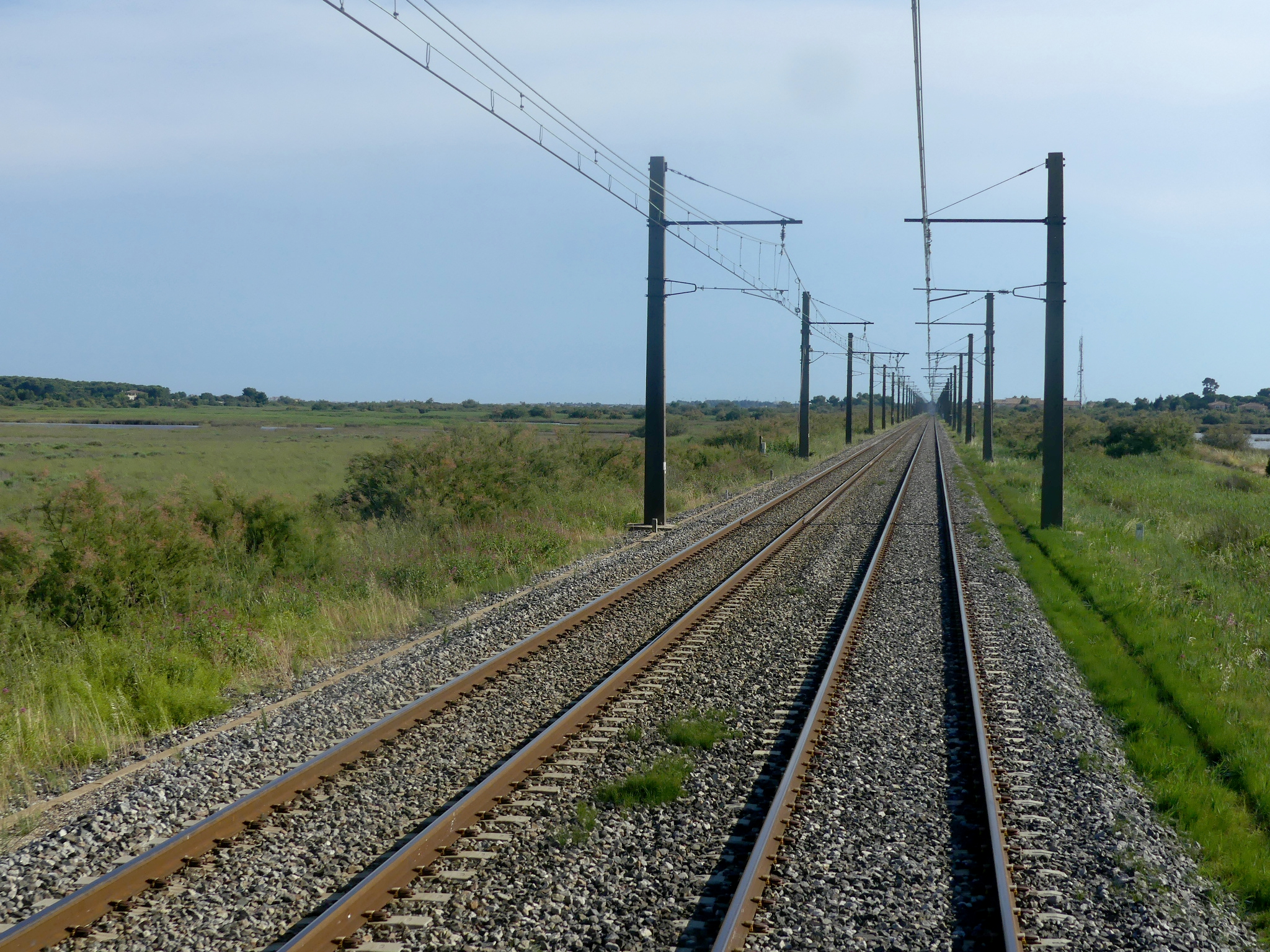 Sight of the Tarascon to Sète railway line, here in the surroundings of Frontignan between Montpellier and Sète, in Hérault, France.